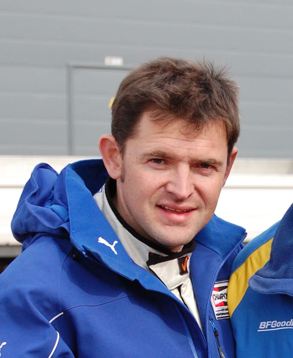 Dani Solá- Spanish rally driver.